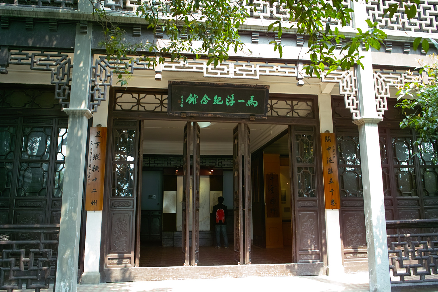 Ma Yifu Museum, Hangzhou, China